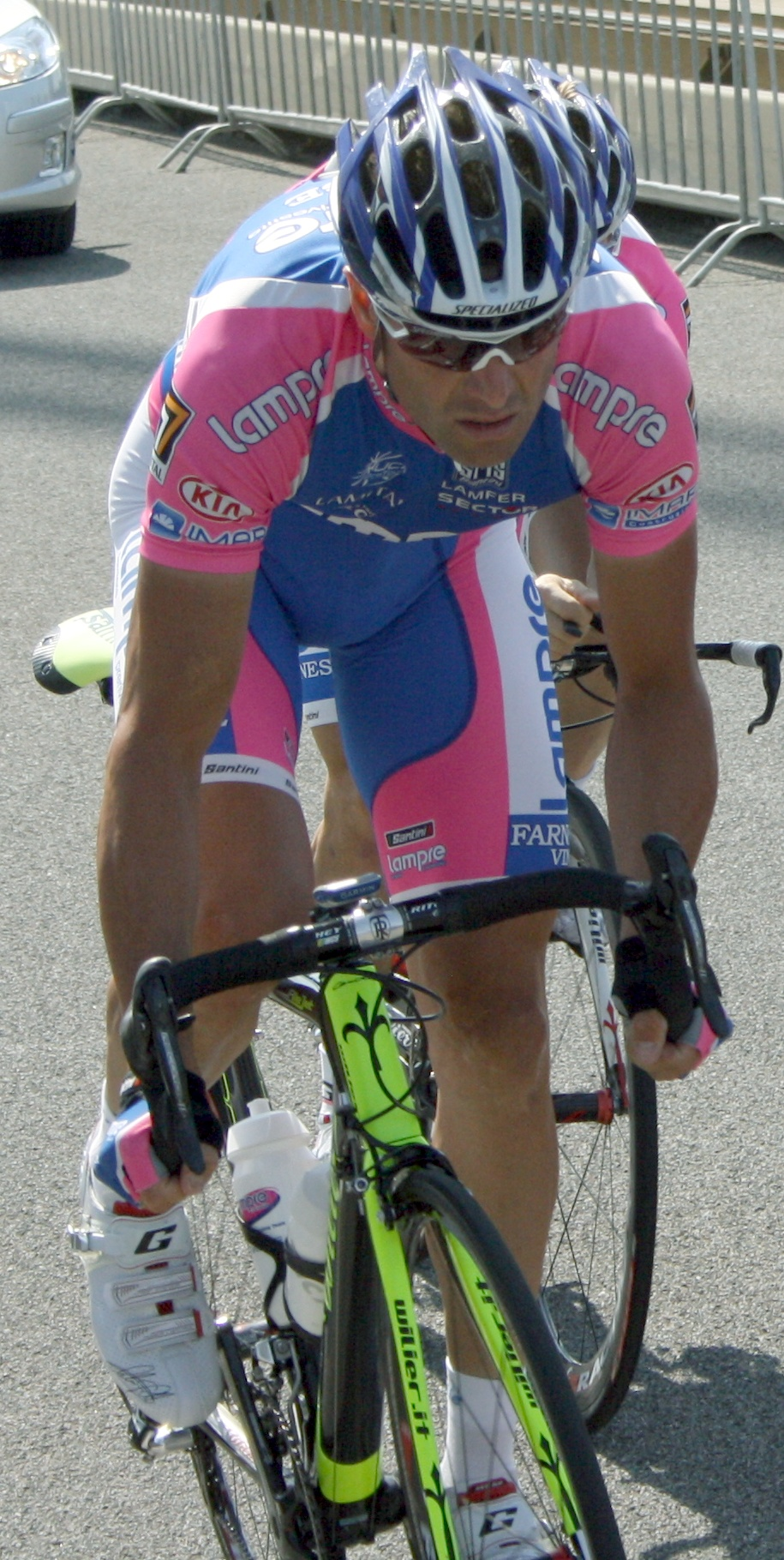 Alessandro Petacchi training for the prologue of the 2010 Tour de France in Rotterdam